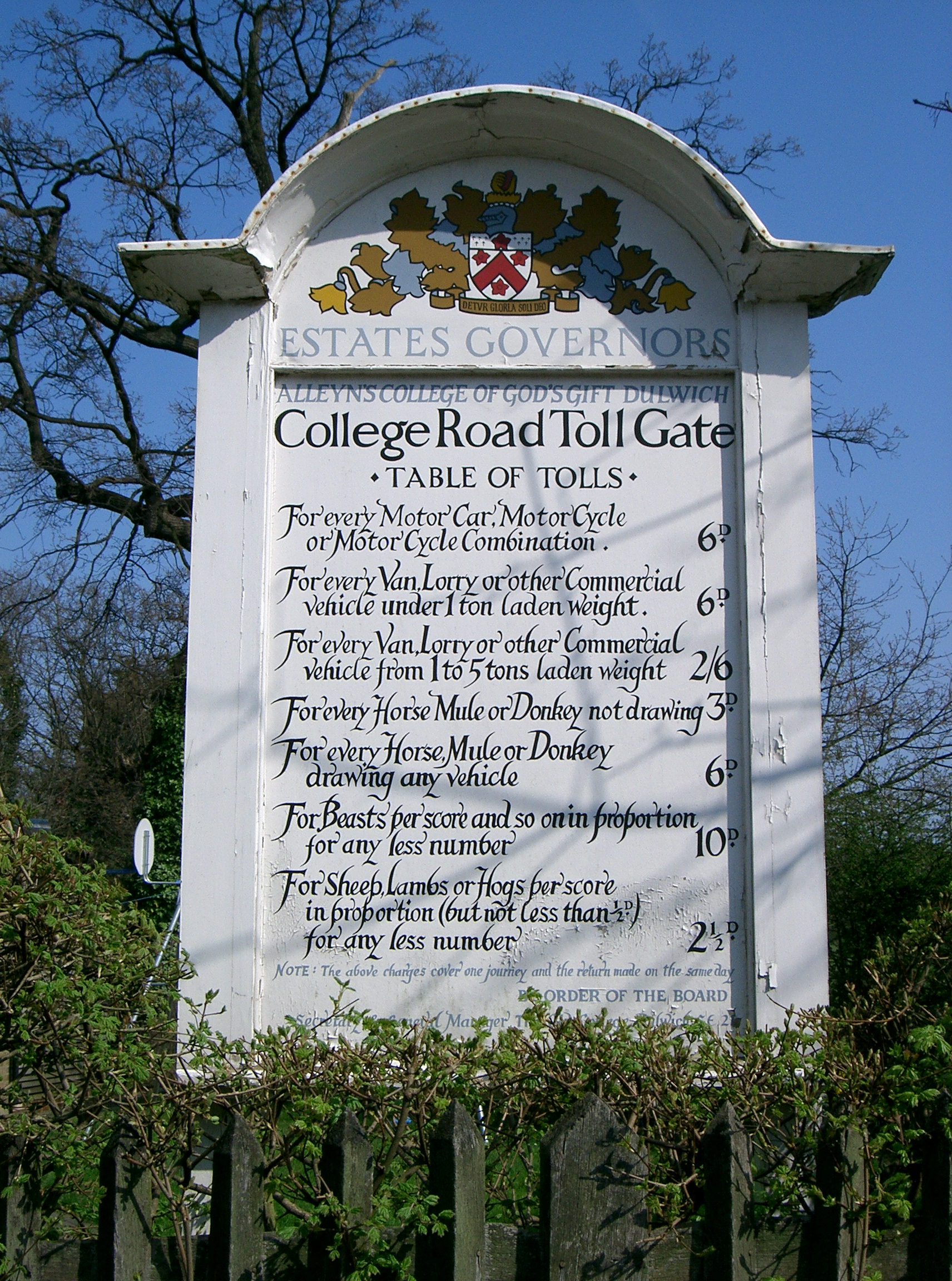 A table of tolls in pre-decimal currency for the College Road, Dulwich, London SE21 tollgate. Photographed by SP Smiler April 2005.